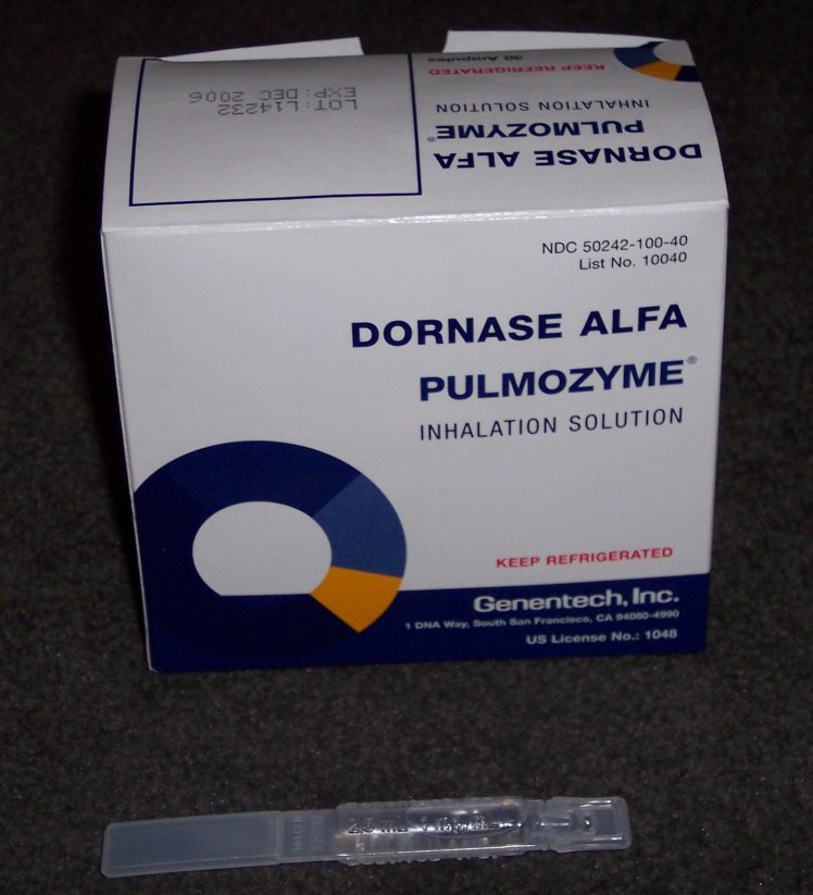 Dornase Alfa, also known as Pulmozyme, a commonly inhaled treatment amongst CF patients.